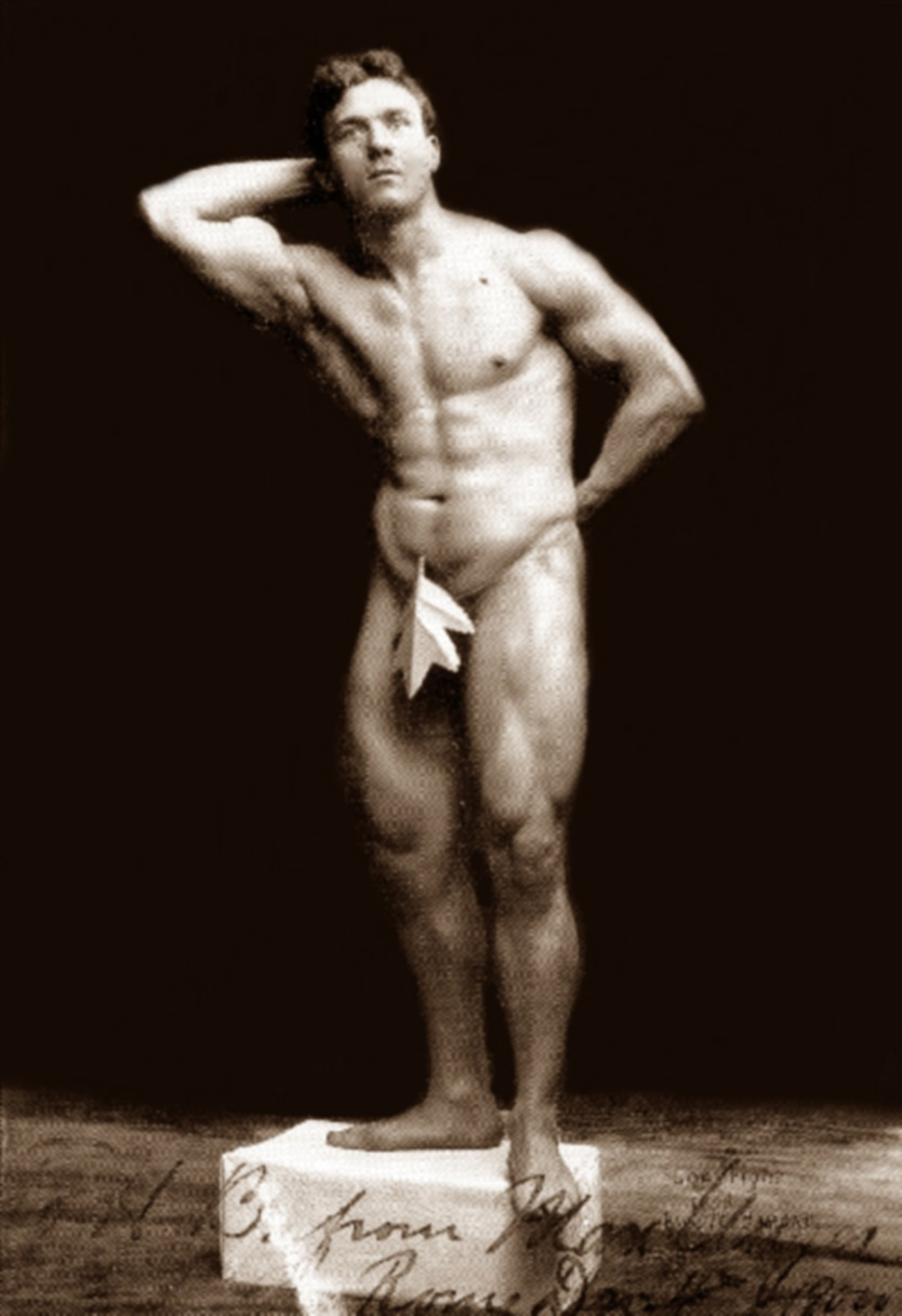 Napoleon Sarony (1821-1896), Portrait of strongman Lionel Strongfort (né Max Unger) in 1900.